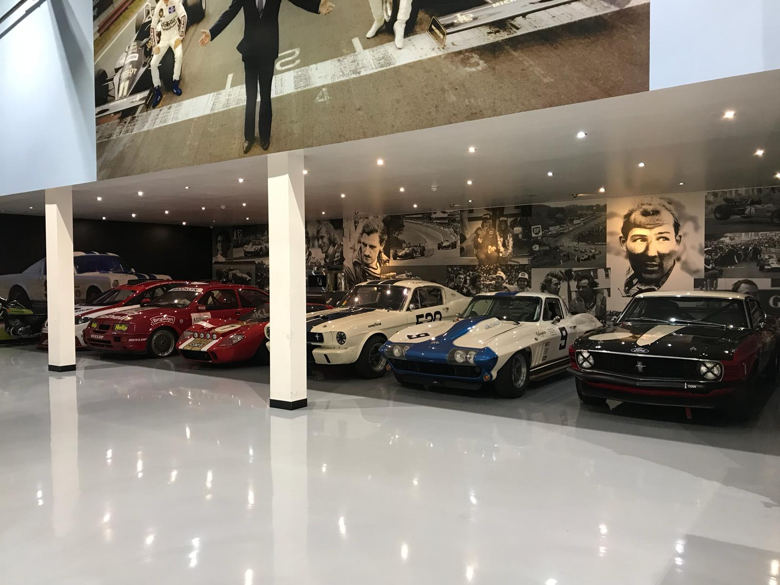 A photograph inside the SZ Motorsport head quarters